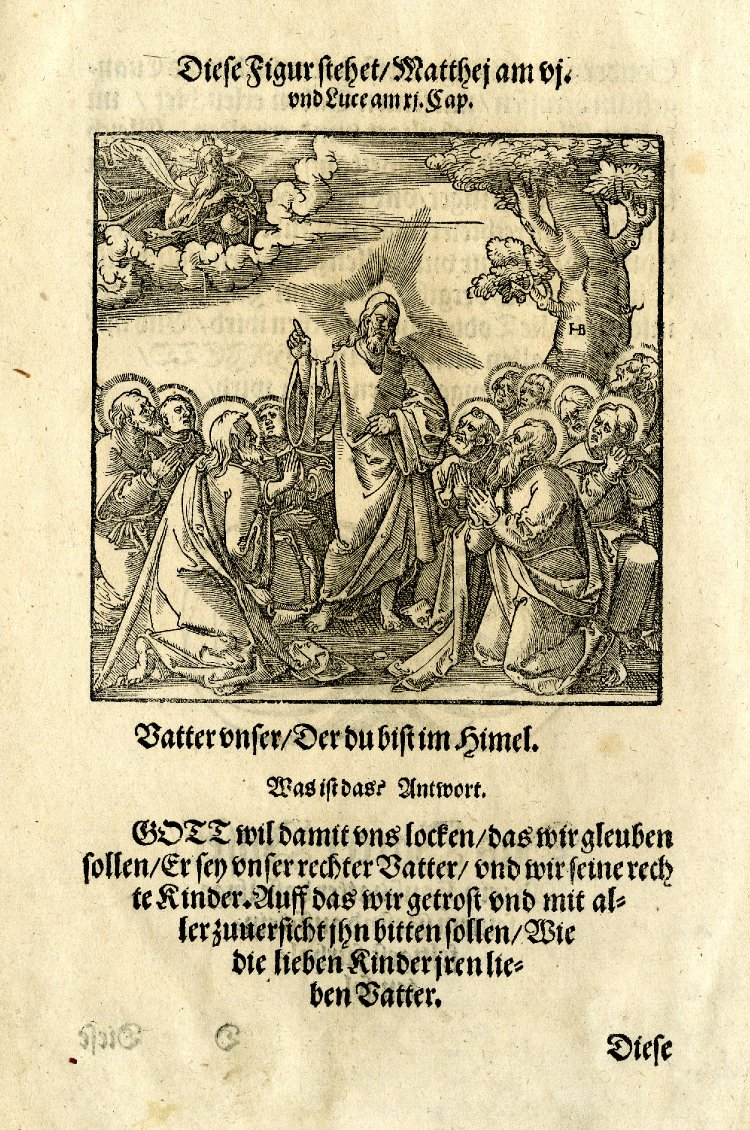 Woodcut by Hans Brosamer of Christ teaching the disciples the Lord's Prayer from the 1550 Frankfurt edition of the Small Catechism of Martin Luther